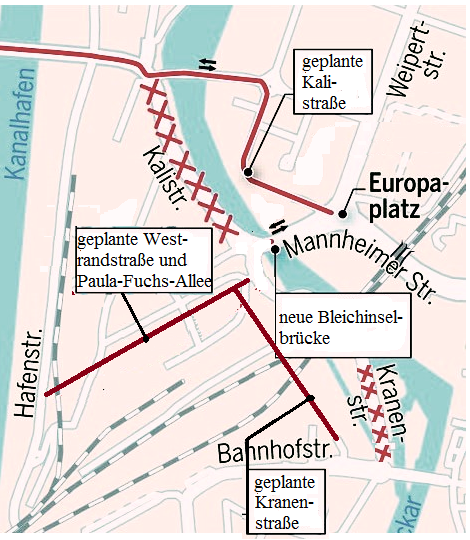 Geplante Westrandstraße auch Paula-Fuchs-Allee und geplante Kranenstraße und Kalistraße